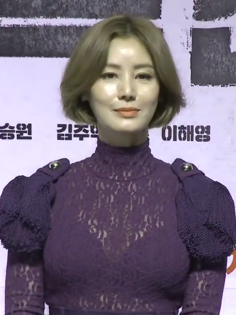 Kim Sung-ryung at CGV Apgujeong in Seoul, for 2018 film 'Believer' press conference